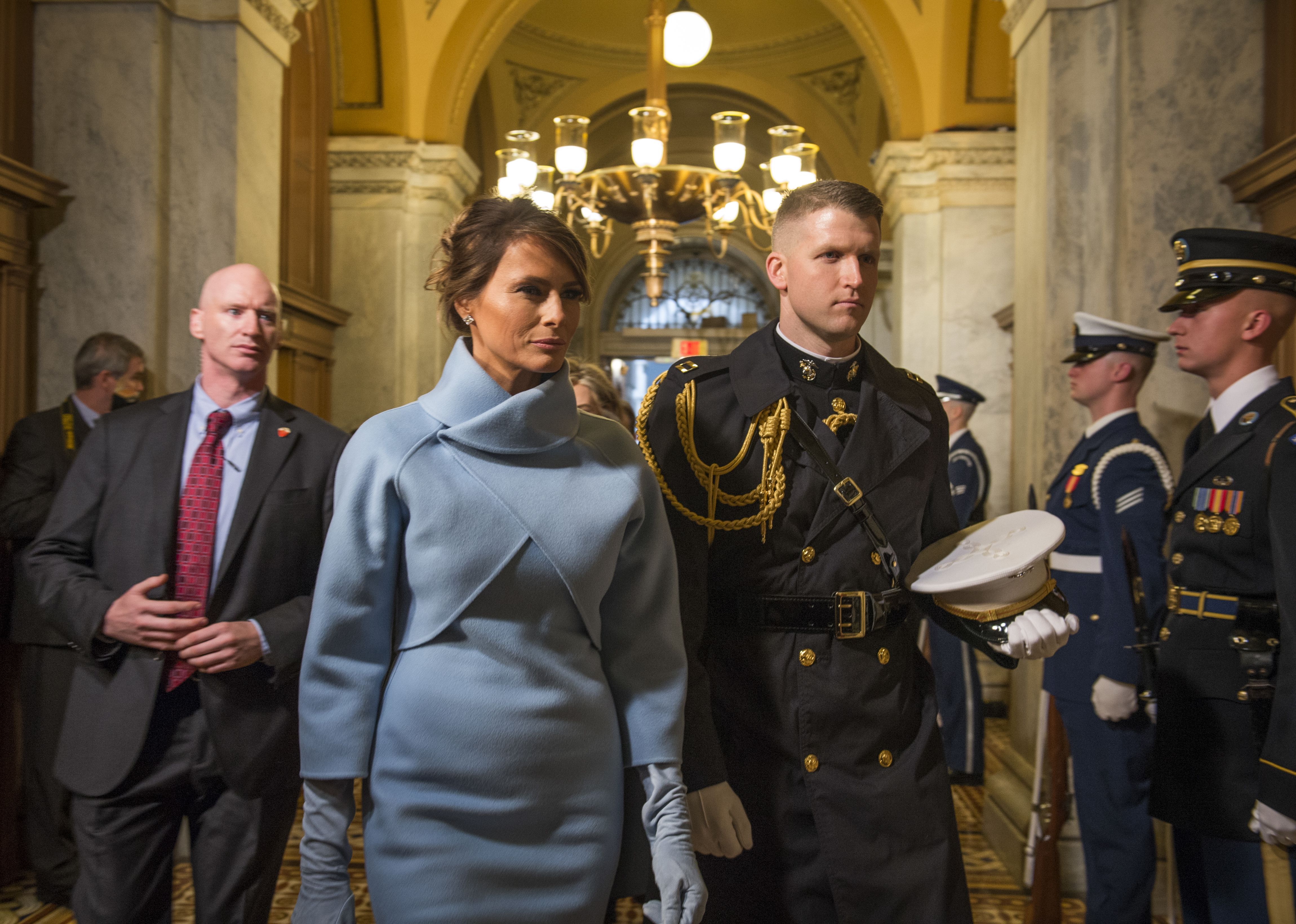 Melania Trump, escorted by a U.S. Marine, arrives at the 58th Presidential Inauguration in Washington, D.C., Jan. 20, 2017. More than 5,000 military members from across all branches of the armed forces of the United States, including reserve and National Guard components, provided ceremonial support and Defense Support of Civil Authorities during the inaugural period. (DoD photo by U.S. Air Force Staff Sgt. Marianique Santos) Unit: Joint Task Force - National Capital Region 58th Presidential Inauguration DVIDS Tags: USCG; USMC; POTUS; Capitol; Capitol Hill; USA; Presidential; Washington D.C.; JTF-NCR; Trump; Inauguration2017; President Donald J. Trump; President Trump; Trump administration; 1CTCS inauguration doc